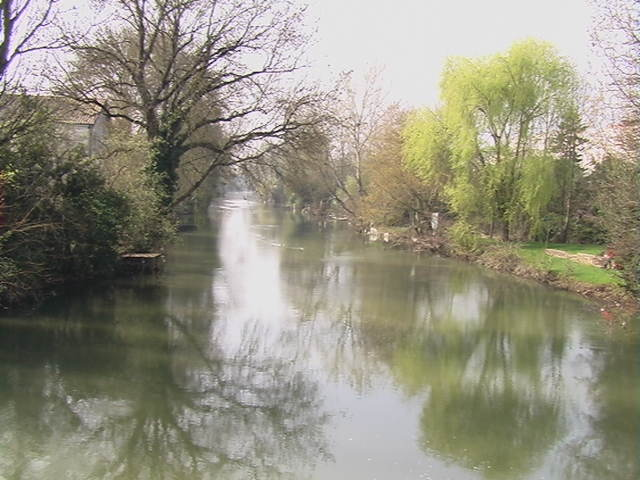 Clain river in Poitiers